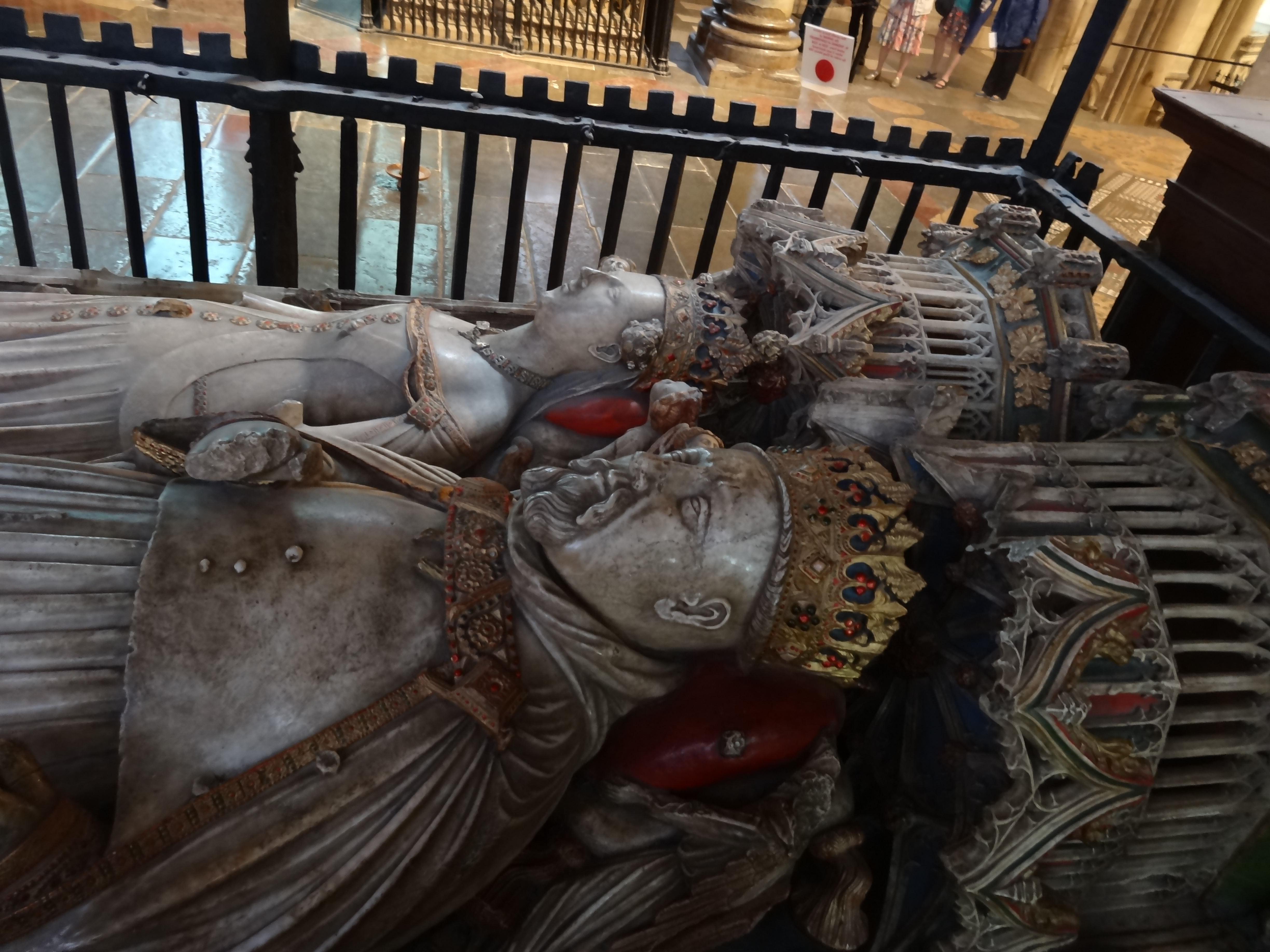 Henry the IV's tomb, Canterbury